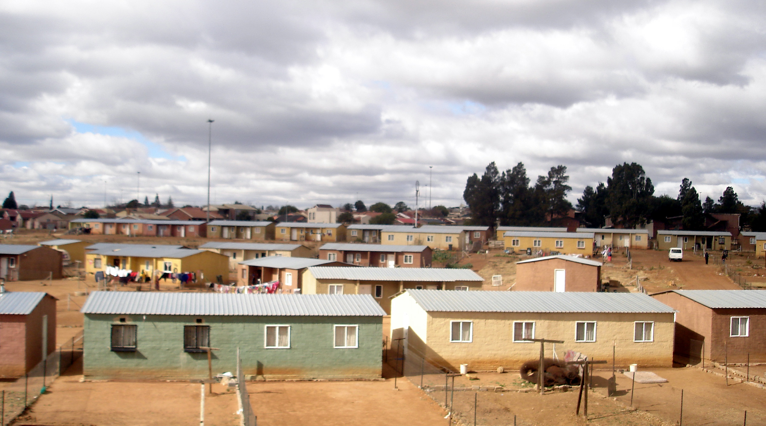 RDP Houses in Soweto (RDP stands for the government's Reconstruction and Development Programme)